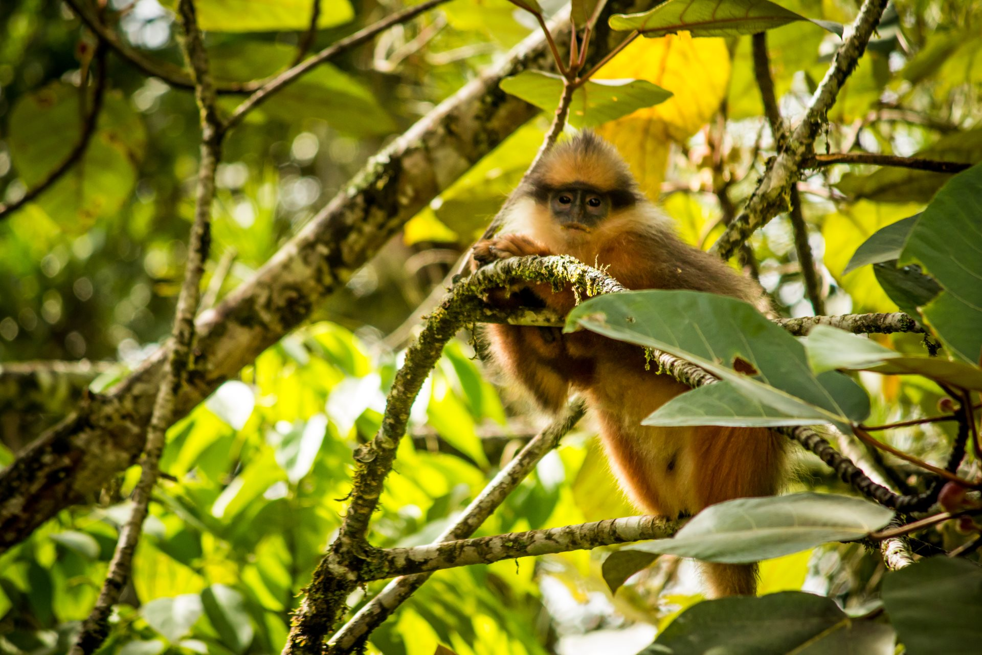 A Yellow-handed Mitered Langur (Presbytis melalophos melalophos), a subspecies of the Sumatran Surili, along the Bukit Tapan road, Kerinci Seblat National Park, Sumatra, Indonesia.